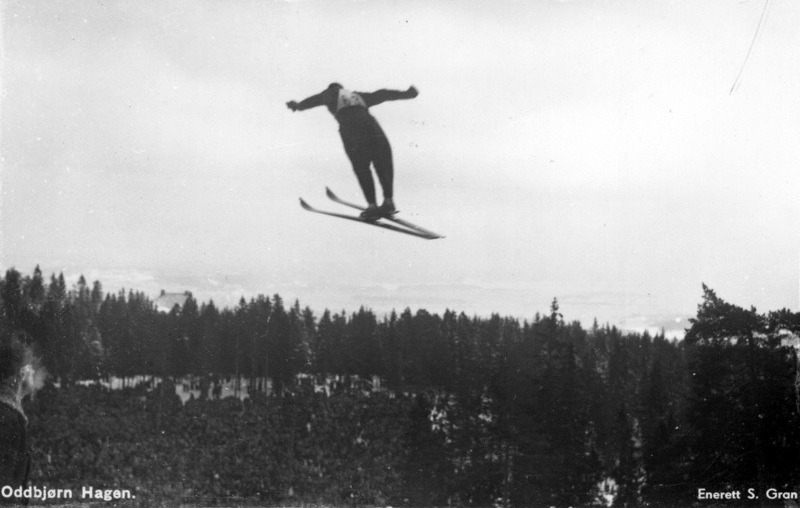 Norwegian skier Oddbjørn Hagen in Holmenkollen